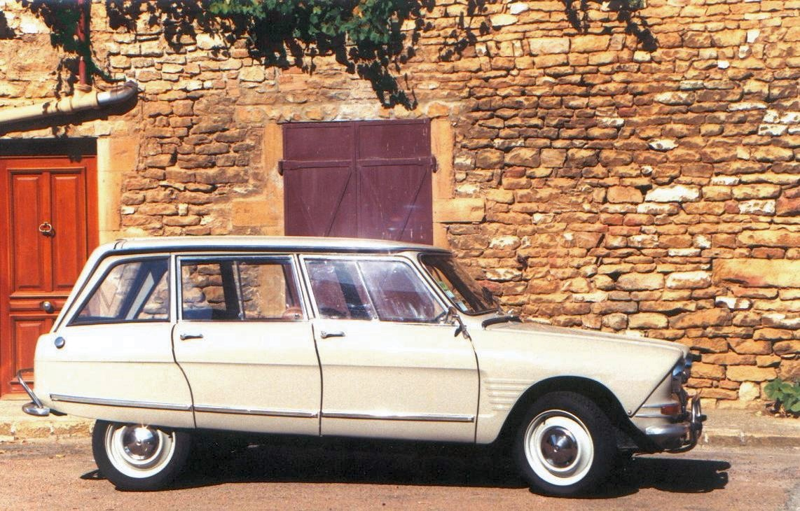 Citroën AMI6 break Club 1969 (AMB-PA), Gris Kandahar, photographed in 1997 in Chazay d'Azergues, Rhône (69), France. Author: Frank Kam